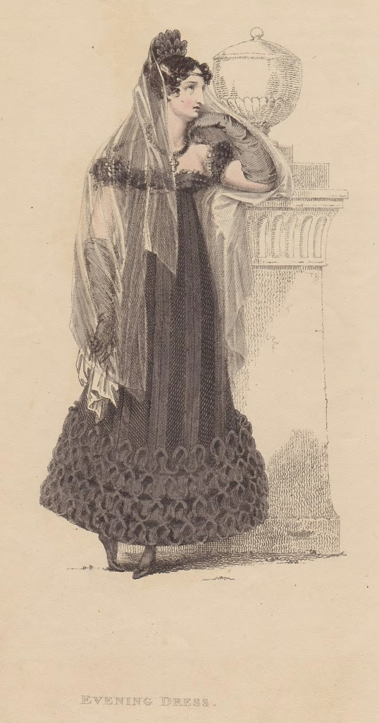 Mourning evening gown 1817